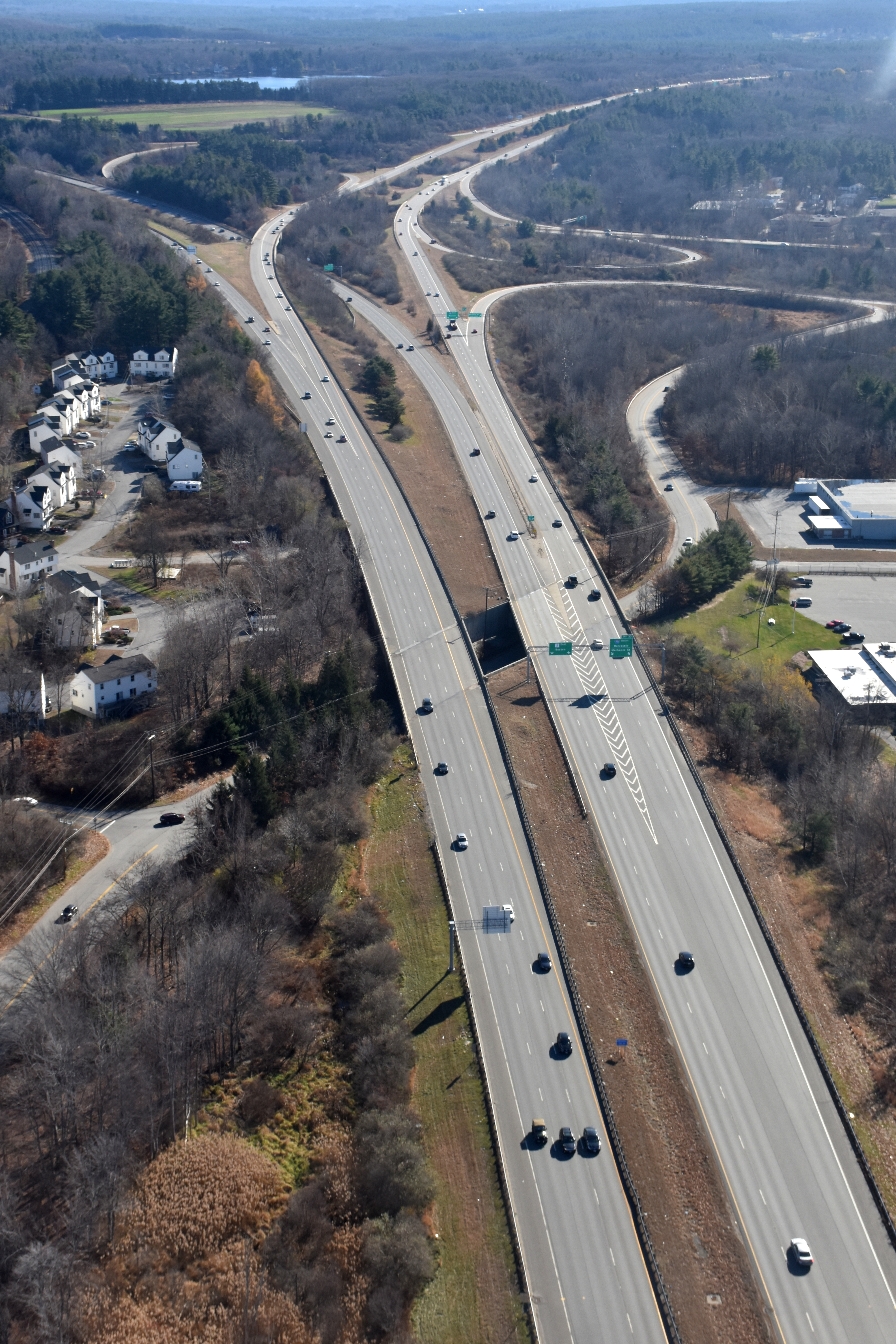 Interchange of Route 2 (left and foreground) and I-190 (right) in Leominster, Massachusetts